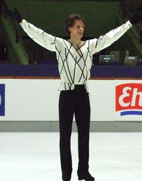 Nebelhorn Tropy 2009 Short Program